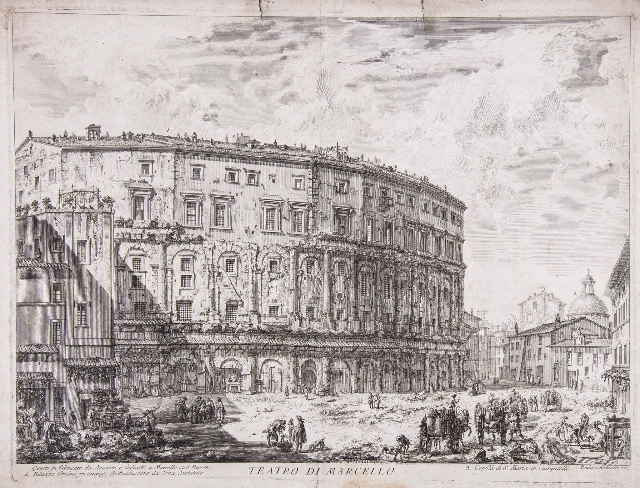 Theatre of Marcellus, Engraving from Giovanni Piranesi